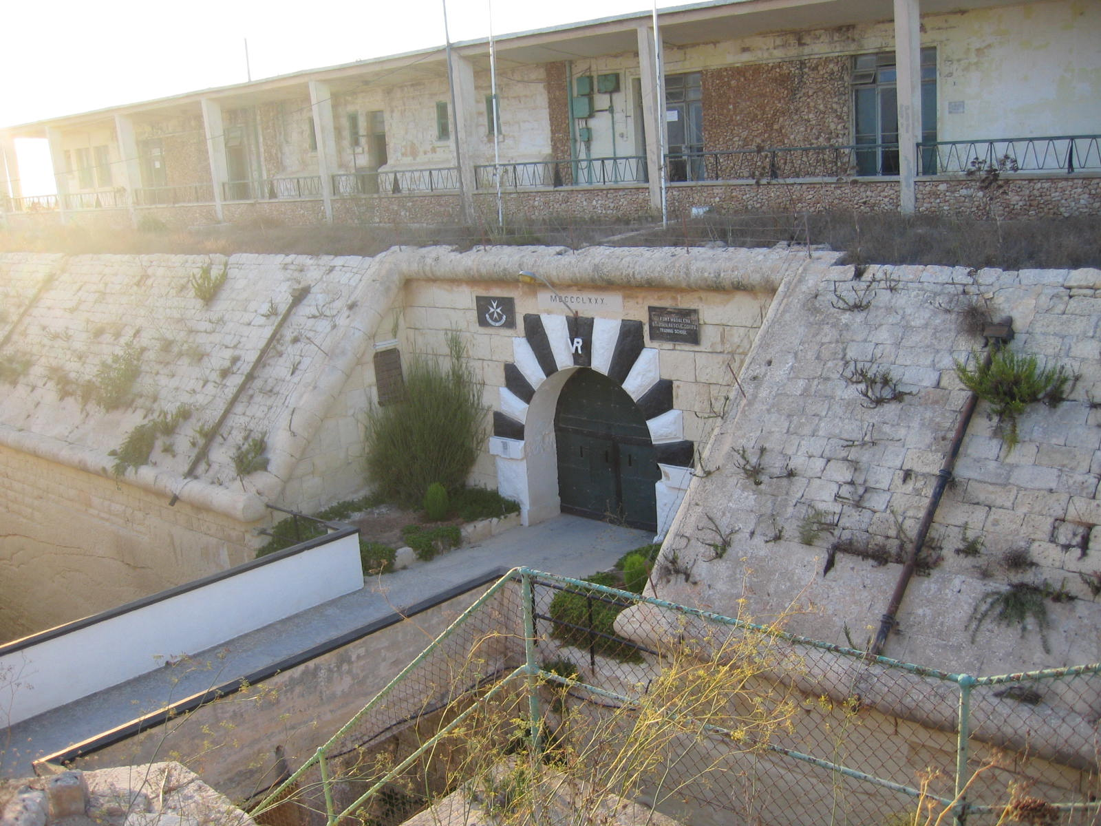 Fort Madliena, Main Gate. Madliena Malta Copyright H.J.Moyes Sept 2005